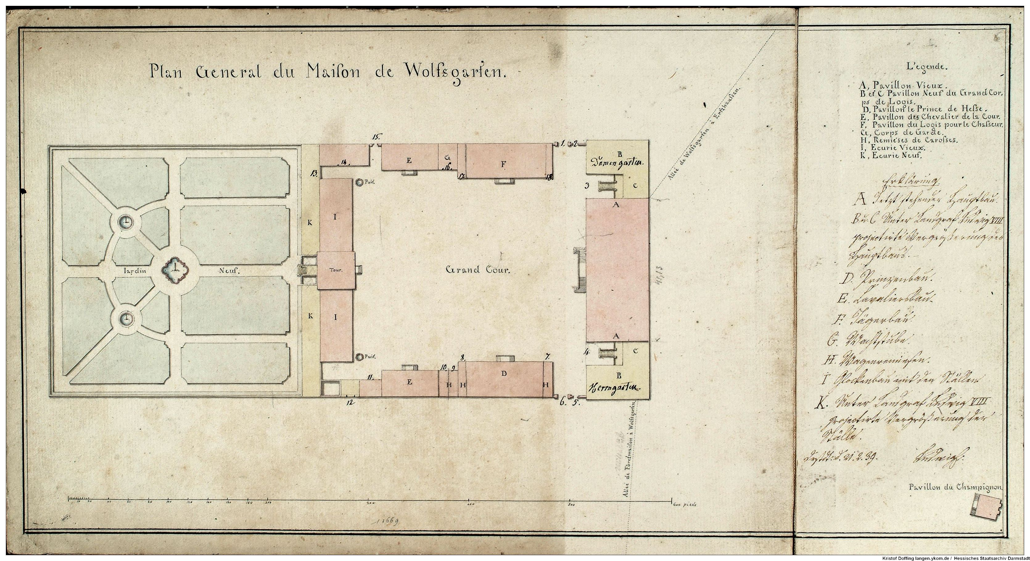 General plan of Schloss Wolfsgarten